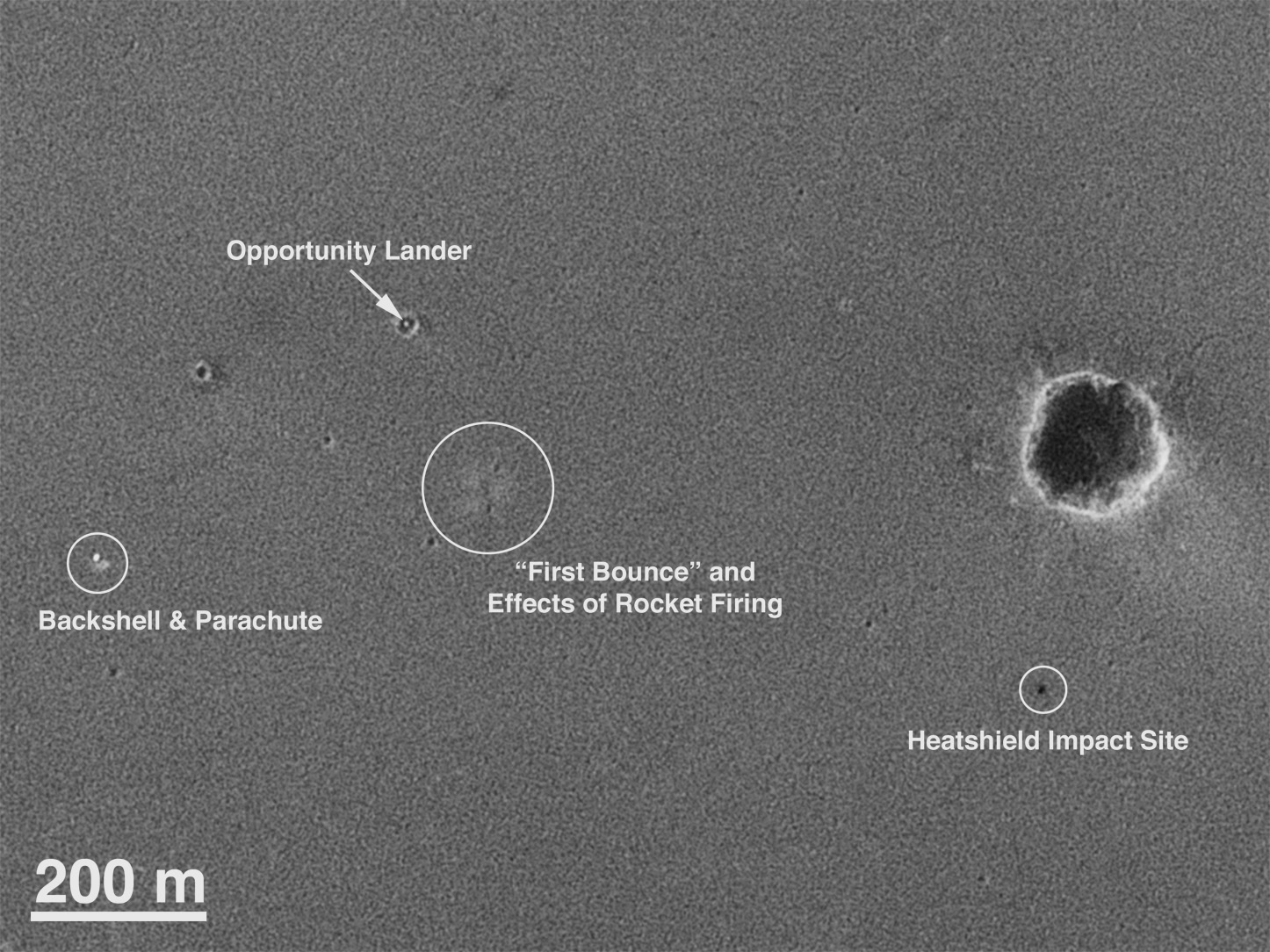 This map of the Mars Exploration Rover Opportunity's new neighborhood at Meridiani Planum, Mars shows remnants of the rover's landing, including its lander; backshell and parachute; first bounce mark; and the site where its heat shield hit the surface (see inset for exact locations). The image was taken by a camera onboard the Mars Global Surveyor orbiter.